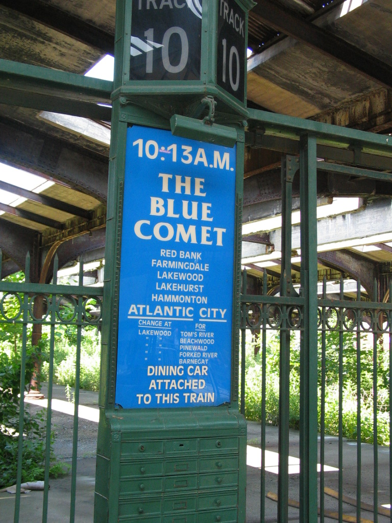 Among the disused Central Railroad of New Jersey terminal. The track designators are separated from abandoned tracks by the fence